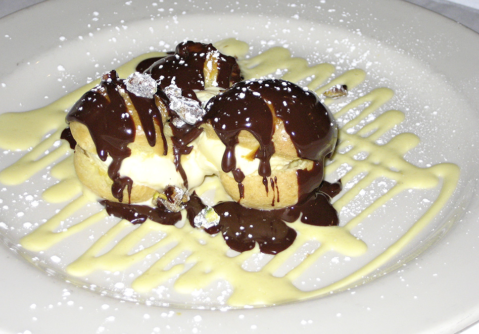 which was warm cream puffs, vanilla bean ice cream and warm chocolate sauce. Food photography is difficult, especially with someone else's camera.